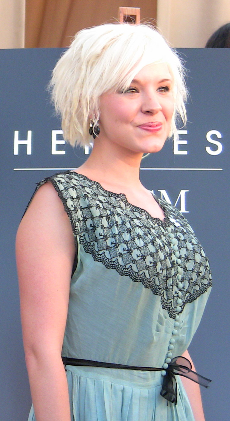 Actress Brea Grant at Heroes for Autism event, Hollywood, California.